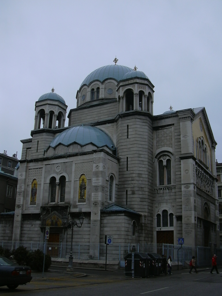 The Serbian Orthodox Church of Trieste (Italy)